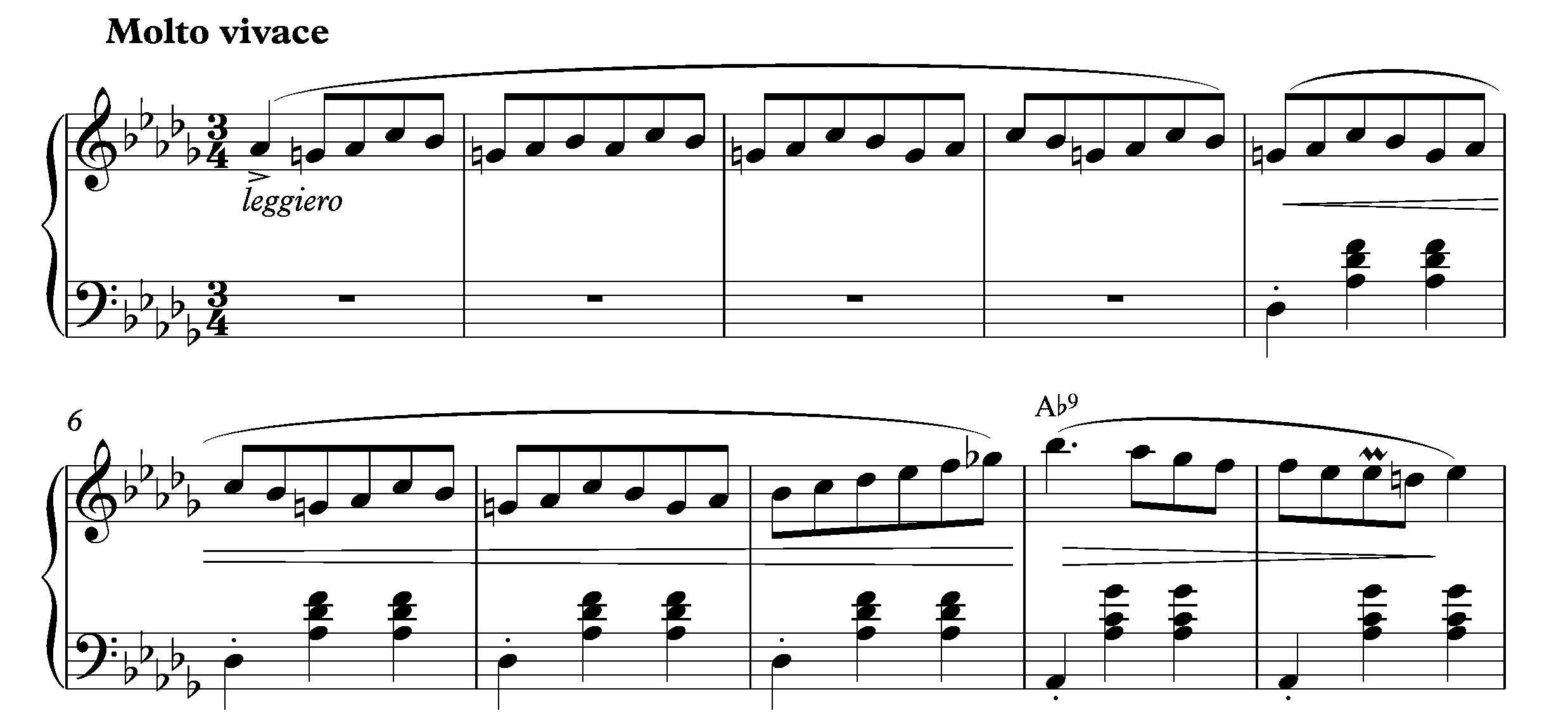 Chopin Waltz in D flat, Op. 64, No. 1